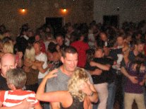 Foxtrot on floor 3 in Malung